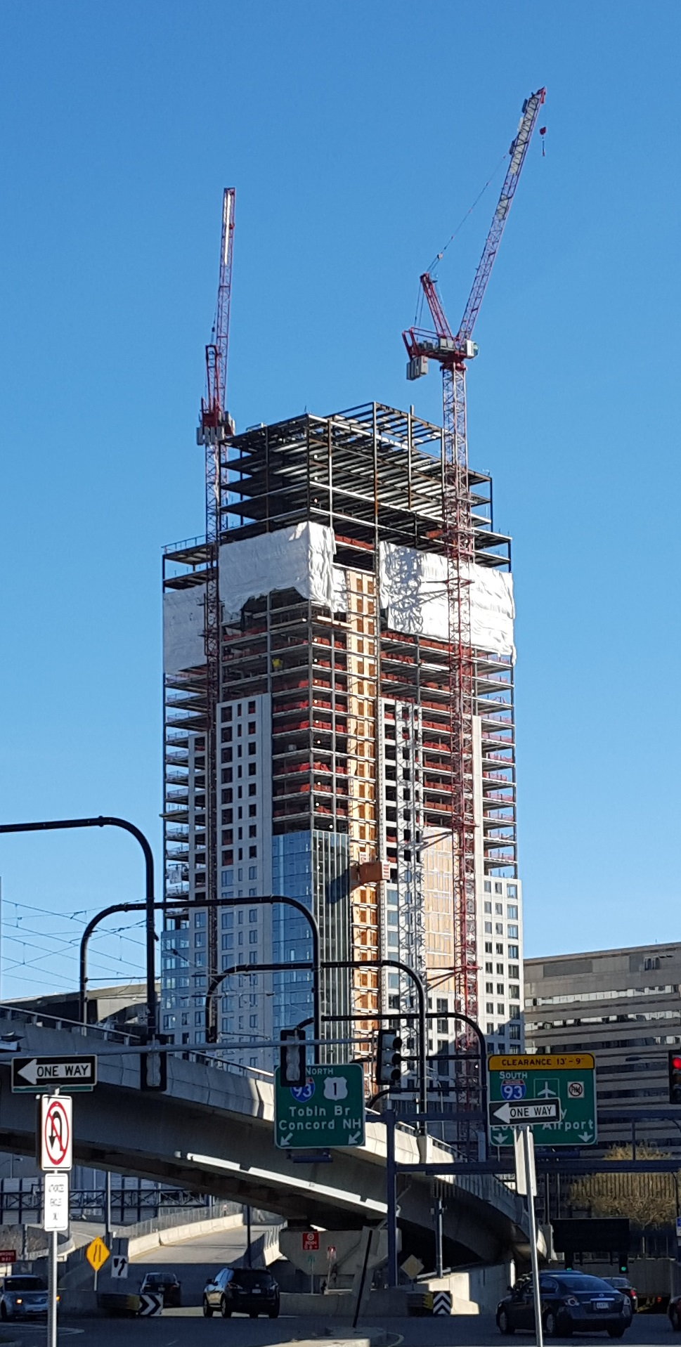 The Avalon North Station building under construction in December of 2015. Other information Cropped from the original.